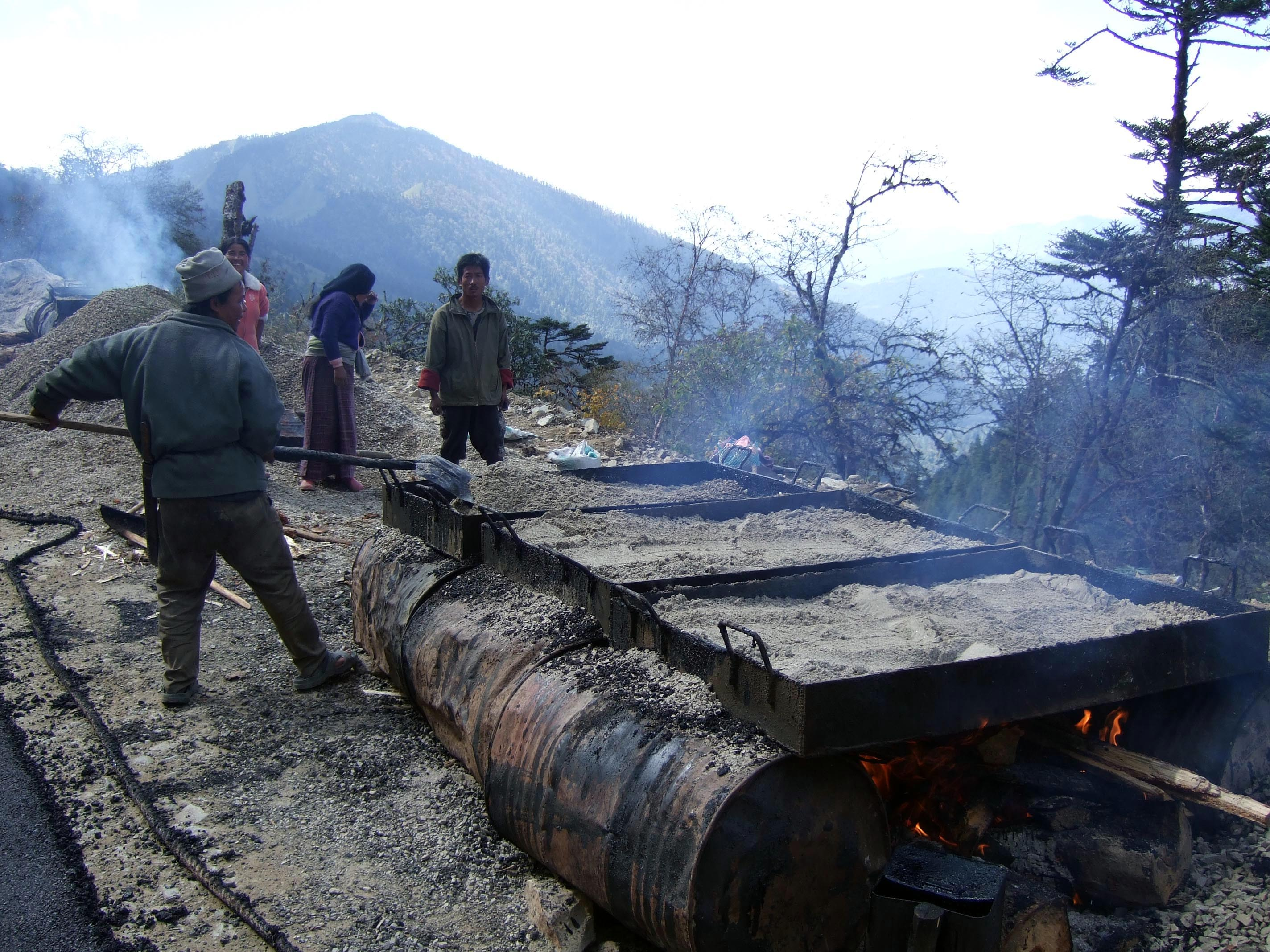 road construction in Bhutan